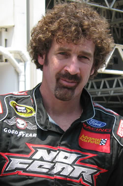 Boris Said posing with a fan at the 2008 NASCAR Nationwide Series event at Mexico City